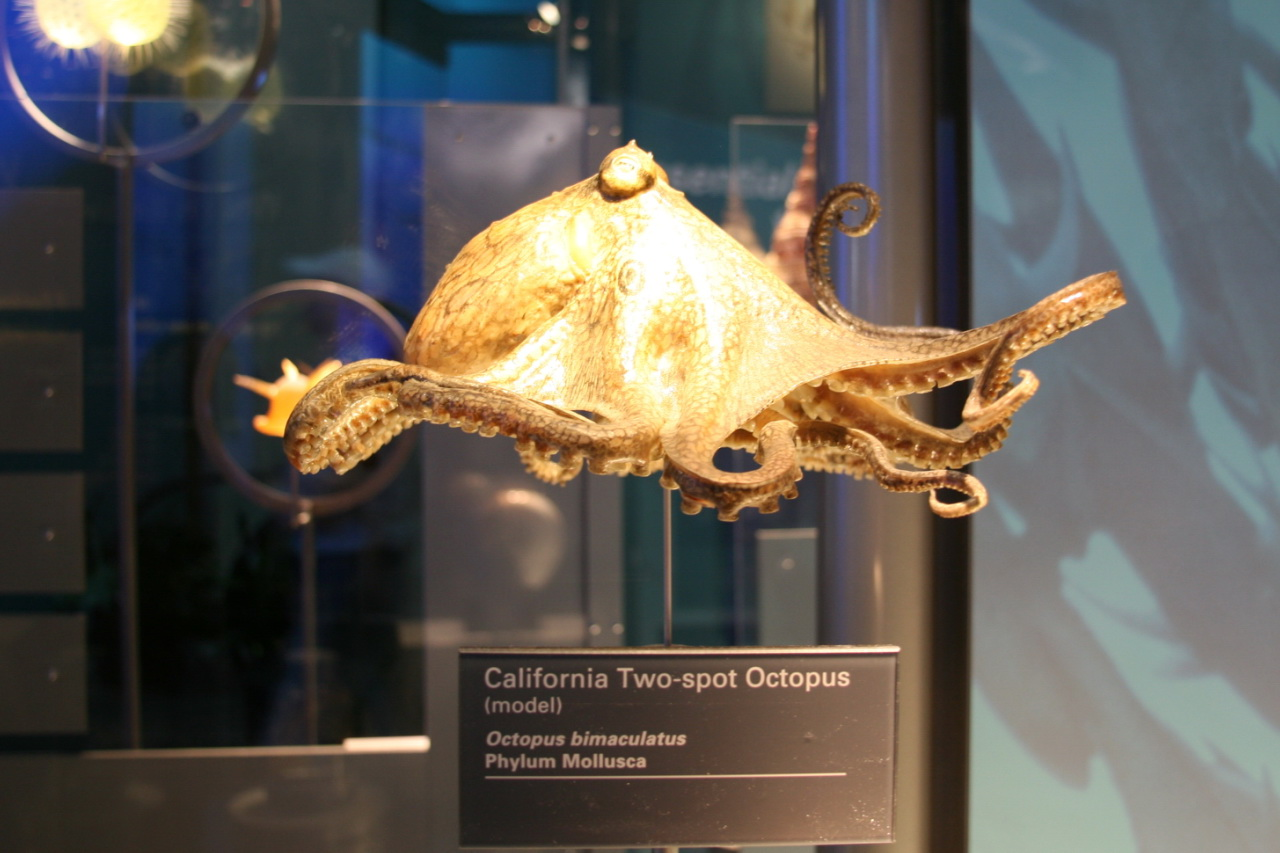 Model of Octopus bimaculatus